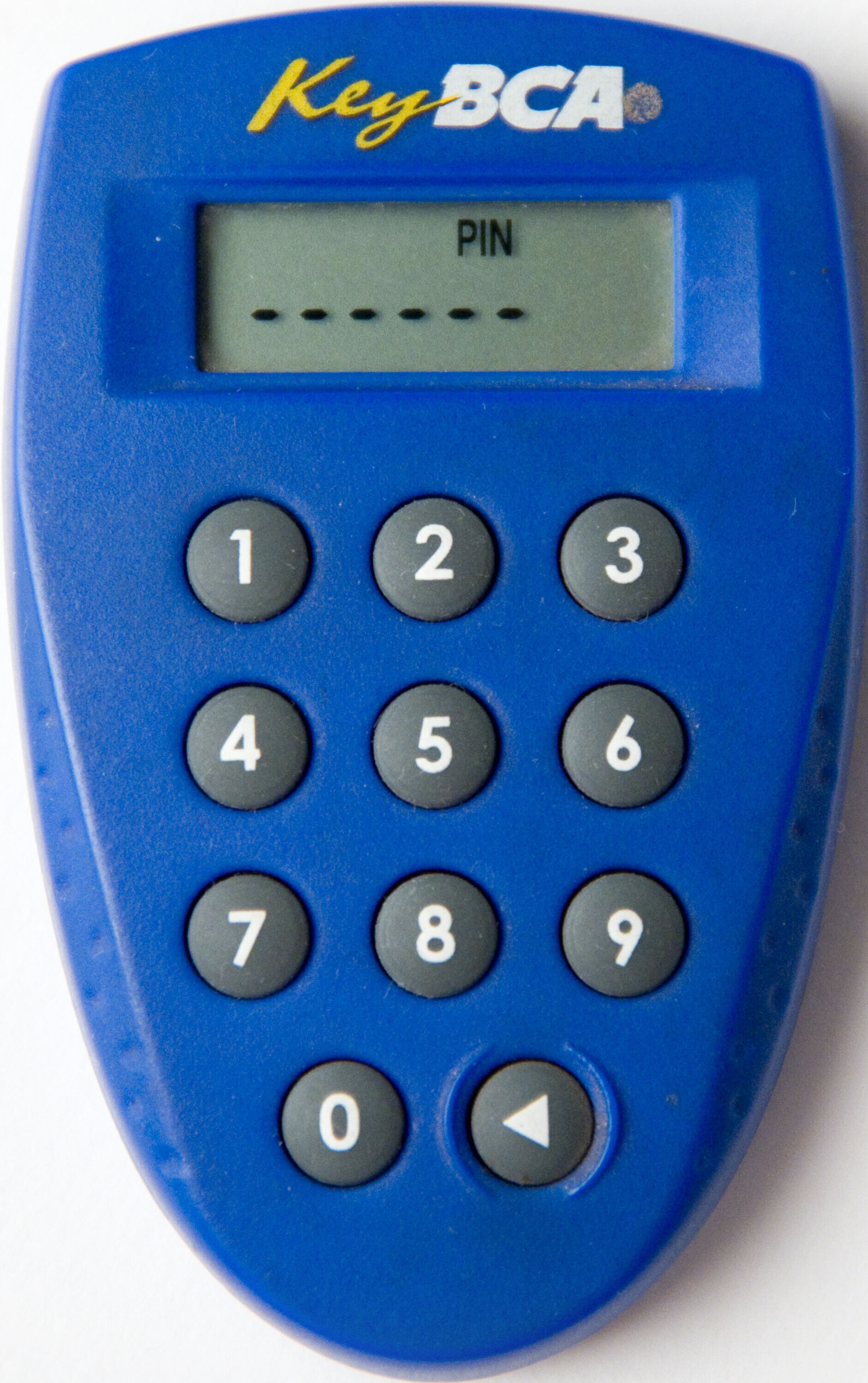 photograph of a vasco keypad labeled KeyBCA issued by Bank Central Asia.